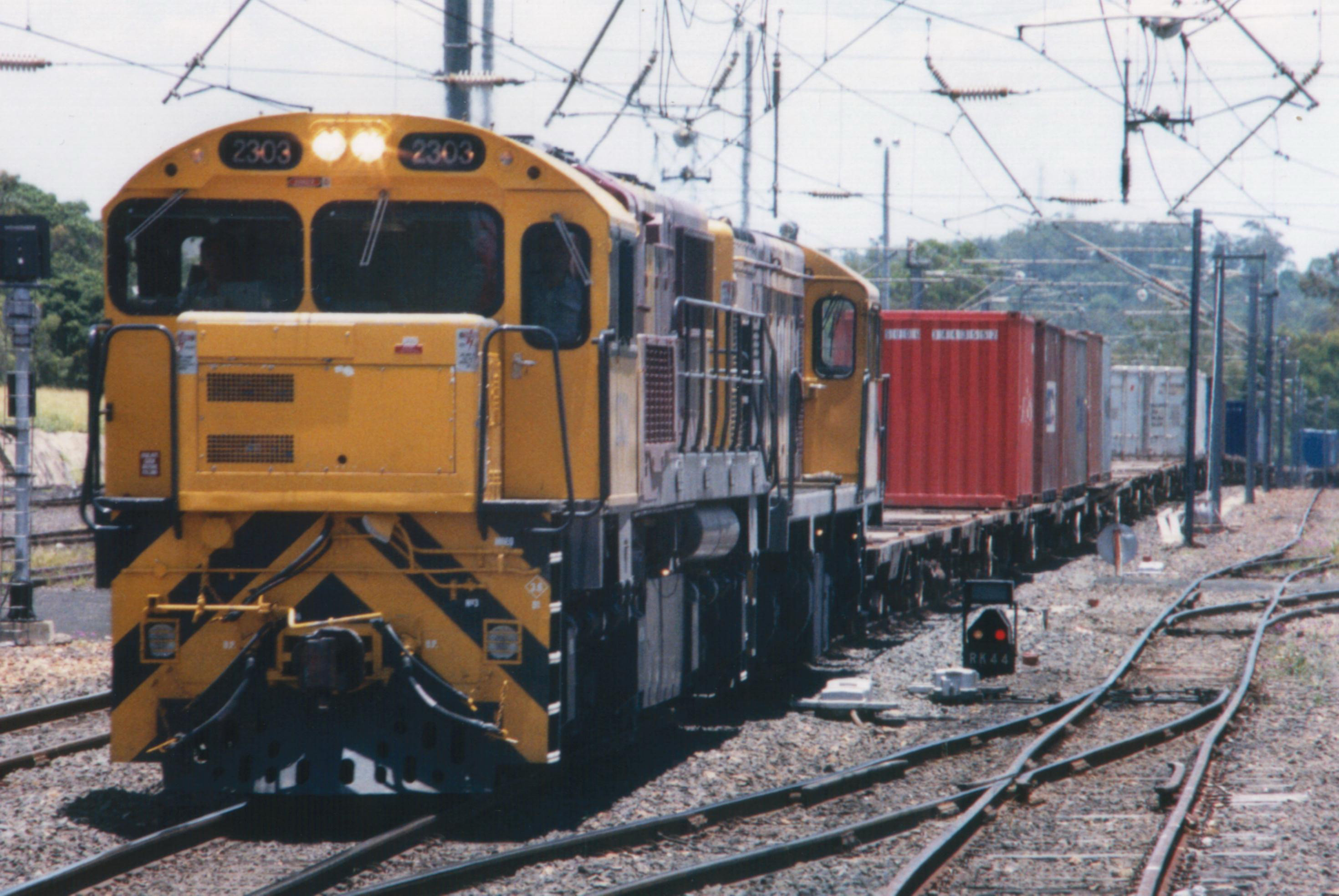 Queensland Rail 2300 Class DEL 2303 approaches Redbank station with a 'up' mixed goods in the year 2000 - exact date unknown. Photo by “Luke Cossins”.